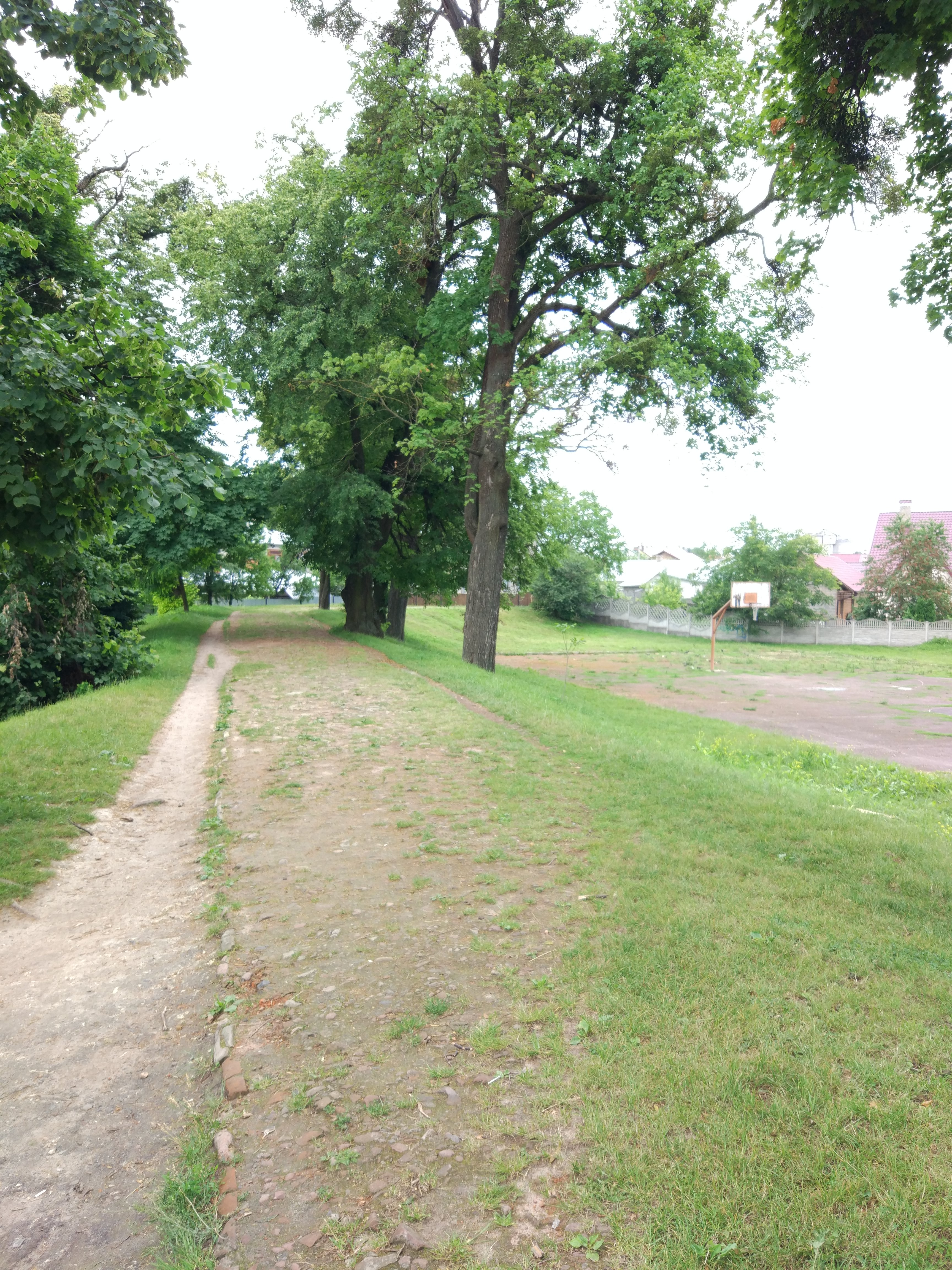 Земляний оборонний вал